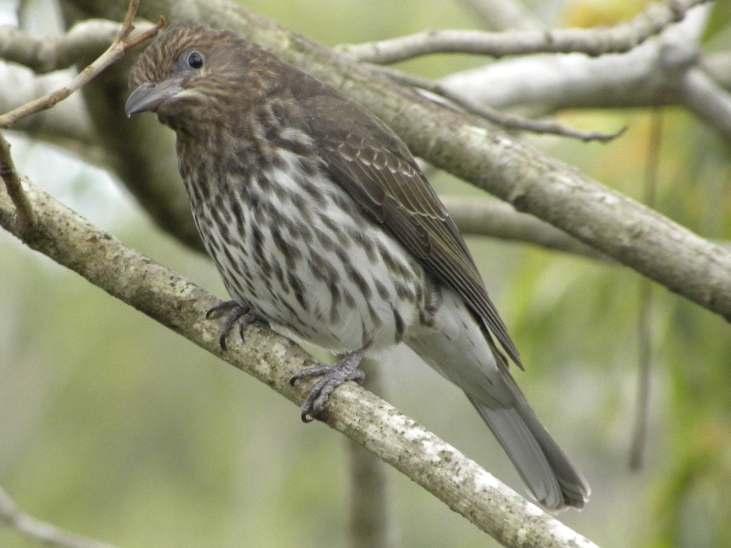 Australasian Figbird (Sphecotheres vieilloti)